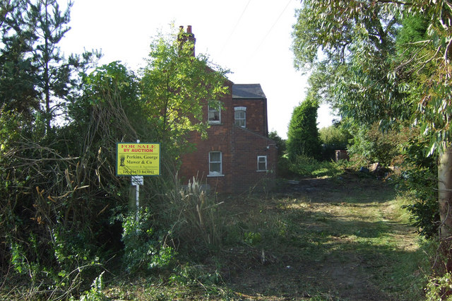 Awaiting Auction, Goxhill, Lincolnshire, England."Grasmere" on Ferry Road awaiting sale by auction. The auctioneers website says: "A detached Victorian property in need of complete renovation set in open countryside with surrounding grass paddock extending to 8.11 acres. Guide Price: £150,000 - £200,000."